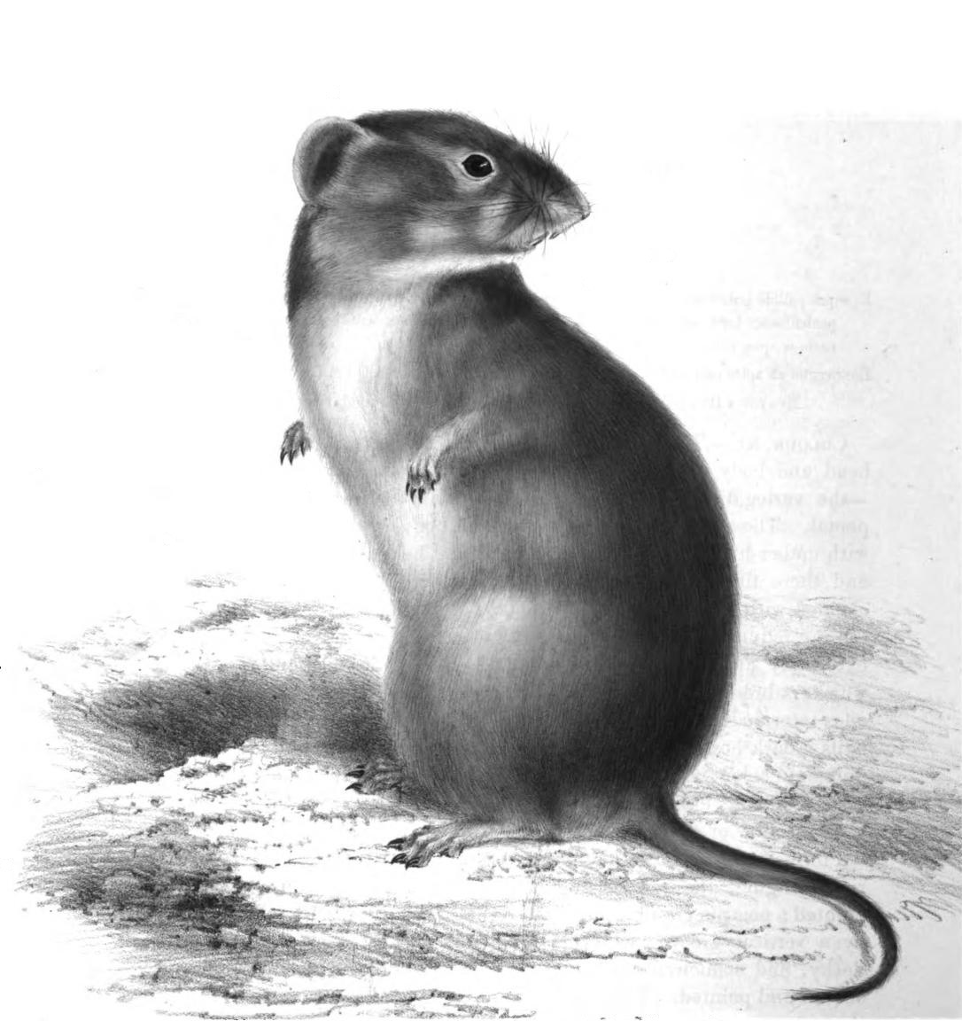 Parotomys brantsii [Smith, A. 1849. Illustrations of the zoology of South Africa: consisting chiefly of figures and descriptions of the objects of natural history collected during an expedition into the interior of South Africa, in the years 1834, 1835, and 1836, fitted out by the "Cape of Good Hope Association for exploring Central Africa". Vol 1. Mammalia (plate 24). Smith, Elder and Co. London.]